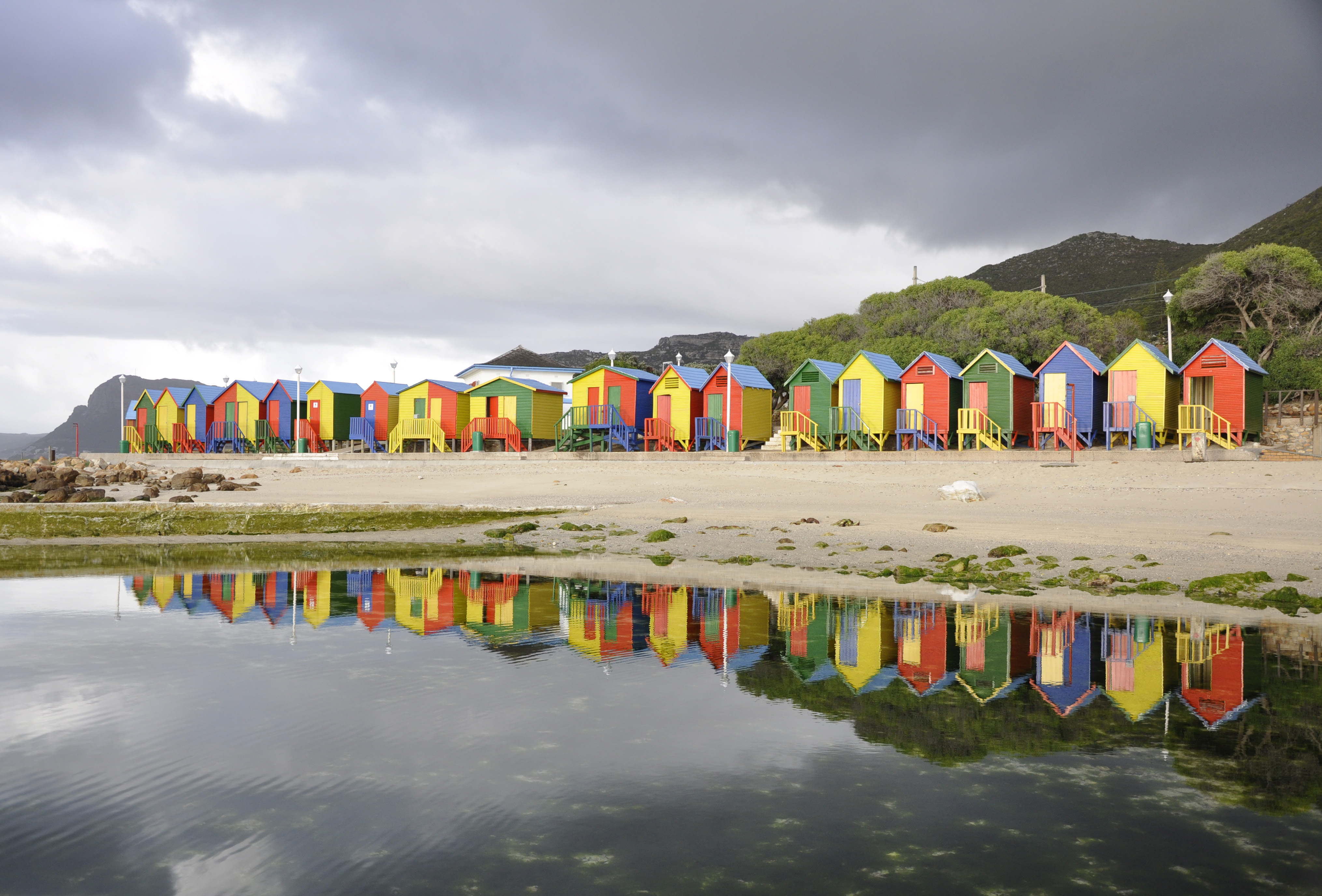 Victorian bathing boxes or beach huts built of wood and painted with bright colours. Present use beach hut. This media shows a South African Protected Site with SAHRA file reference New.